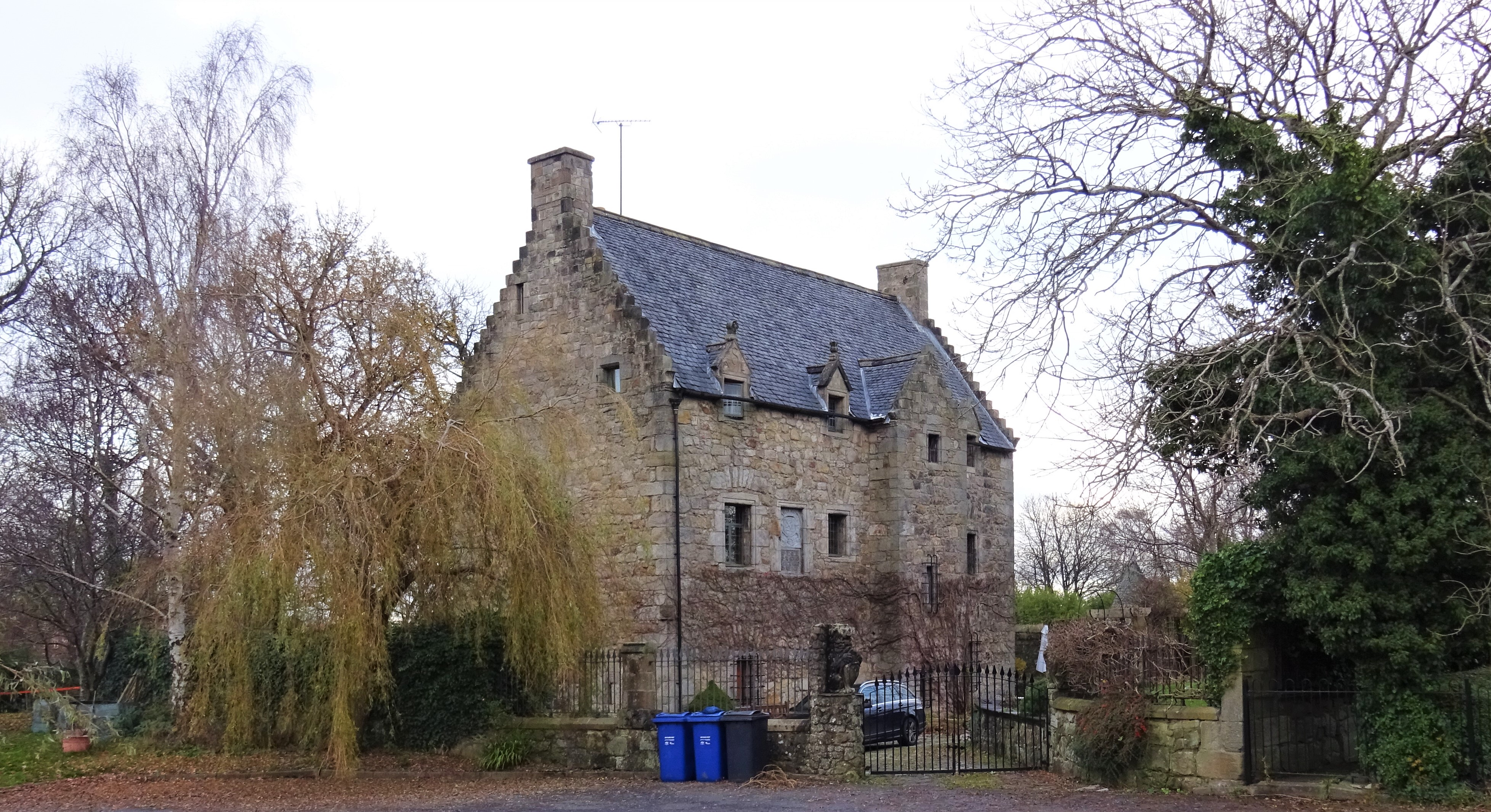 16th century Blackhall Manor, view of the south facing frontage. Paisley, Renfrewshire, Scotland. Restored in 1982-1983.